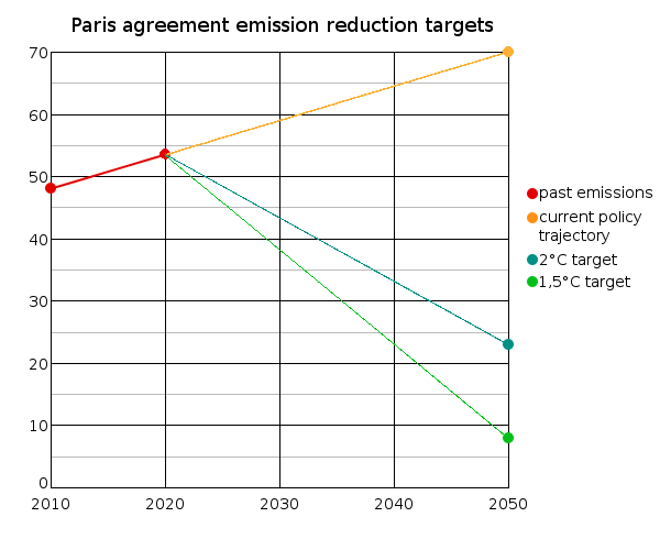 Schematic showing the Paris agreement emission reduction targets. The schematic was based on figure ES2 of page xvi/16 of The Emissions Gap Report 2016: A UNEP Synthesis Report The current policy target was extended to 2050 and cut in 2; one being the "past emissions" (data between 2010-2020) and the other half forming the current present policy target. The past emissions was taken from (the first part of) the current policy trajectory given that it included the emission reductions from earlier climate agreements (i.e. Kyoto protocol). Baseline is the data for if nothing would have been done between 2010-2020 (which wasn't the case) so this has been dropped entirely. For the exact data used: past emissions: 48 (2010) to 53,5 (2020) gigatonnes of CO2 per year current policy trajectory: 53,5 (2020) to 70 (2050) gigatonnes of CO2 per year 2°C target: 53,5 (2020) to 23 (2050) gigatonnes of CO2 per year 1,5°C target: : 53,5 (2020) to 8 (2050) gigatonnes of CO2 per year The 53,5 gigatonnes was calculated as follows: 48 gigatonnes was emitted in 2010, and 59 gigatonnes is to be emitted by 2030; so 59-48=11 over 20 years, so 5,5 over 10 years; 48+5,5=53,5 The 70 gigatonnes was calculated as follows: 48 gigatonnes was emitted in 2010, and 59 gigatonnes is to be emitted by 2030; so 59-48=11 over 20 years, so 22 over 20 years; 48+22=70